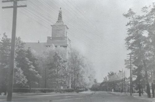 The lutheran church of Säkkijärvi before Winterwar.